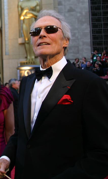 Army.mil Former Soldier and award nominee Clint Eastwood expresses his thanks to the men and women of the armed forces before the 79th Academy Awards at the Kodak Theatre in Los Angeles, Feb. 25. Other celebrities took the time to thank the Soldiers and pay tribute to their service and sacrifices.